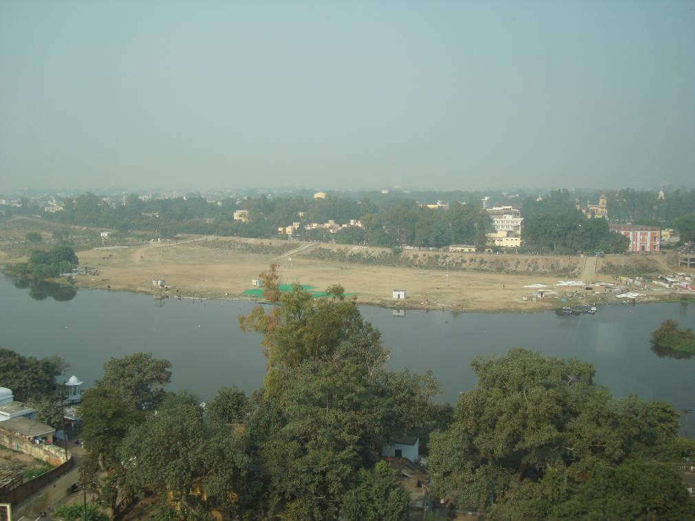 View of river Gomti at Lucknow, photograph taken by Sayed Mohammad Faiz Haider